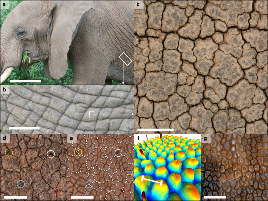 Morphology of the African bush elephant’s (Loxodonta africana) skin. In addition to (a), (b) centimetre-scale wrinkles and folds, African elephants exhibit (c) a network of narrow (~100μm) channels (here, on the forehead of a juvenile animal). (d), (e) A patch of forehead skin before (d) and after (e) the mechanical extraction of the stratum corneum. In (e), the narrow channels (white dotted lines) are no longer visible because they are confined to the extracted skin layer; note that the stratum corneum channels are confined in between papillae. The circled hair on both pictures serve as guides to the eye. (f) Mesh generated from the data of a micro-CT scan of a patch of skin without stratum corneum and colour-coded by height, showing the intricate three-dimensional surface geometry of the animal’s papillae.(g) A patch of skin from the forehead of an Asian elephant. Even though the pattern of papillae is present, narrow channels are not observed. Scale bars: (a) ∼50 cm; (b) ∼7 cm; (c) 7.5 mm; (d) 2.5 mm; (e) 2.5 mm; (f) 1 mm; (g) 5mm